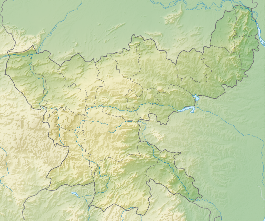 Relief map of Jharkhand